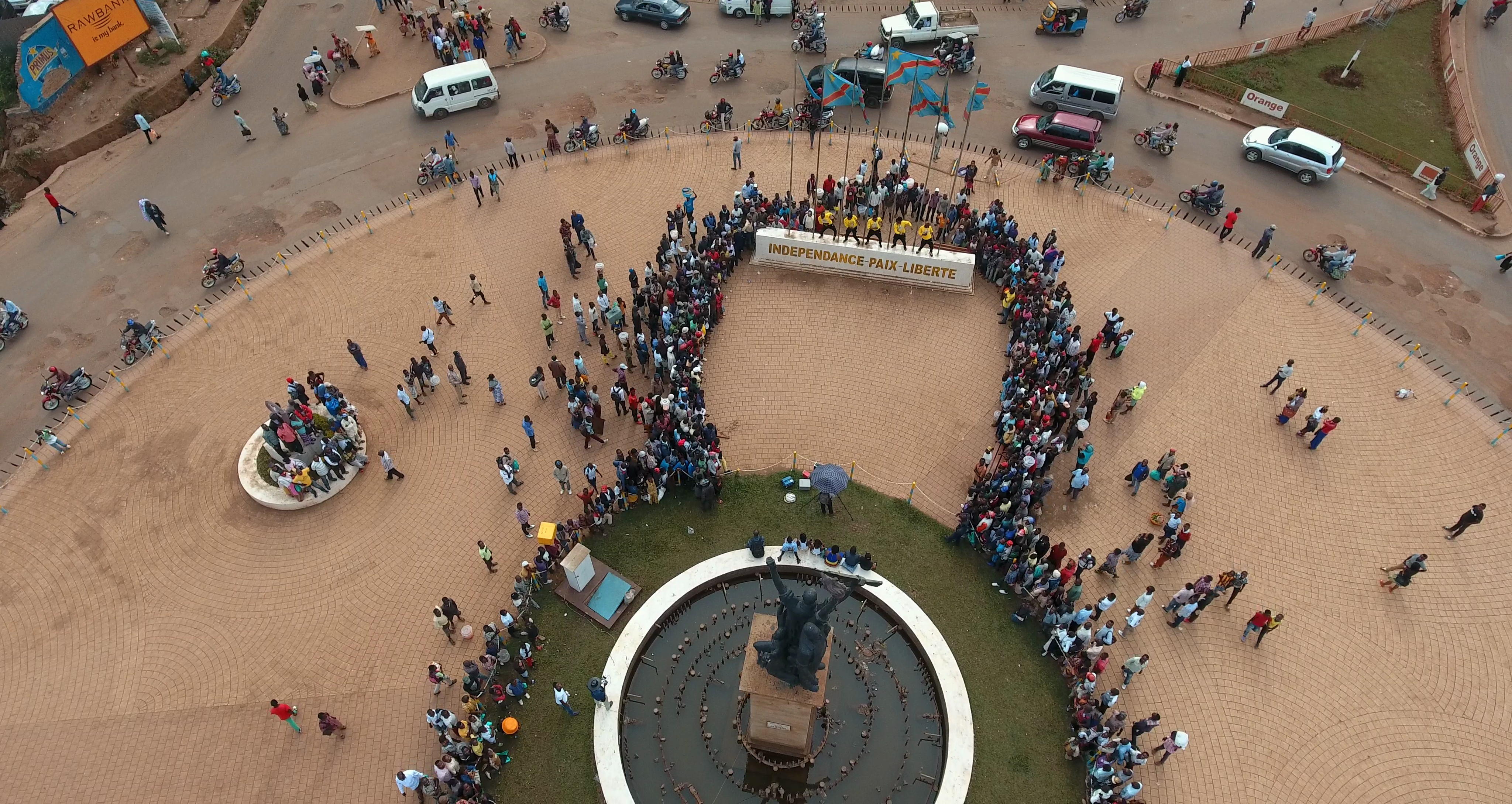 place de l’indépendance ; bukavu Drc This is an image of "African people at work" from Democratic Republic of the Congo